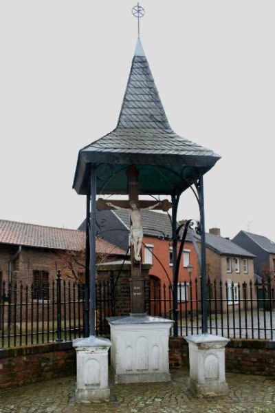 Cultural heritage monument No. 46 in Selfkant